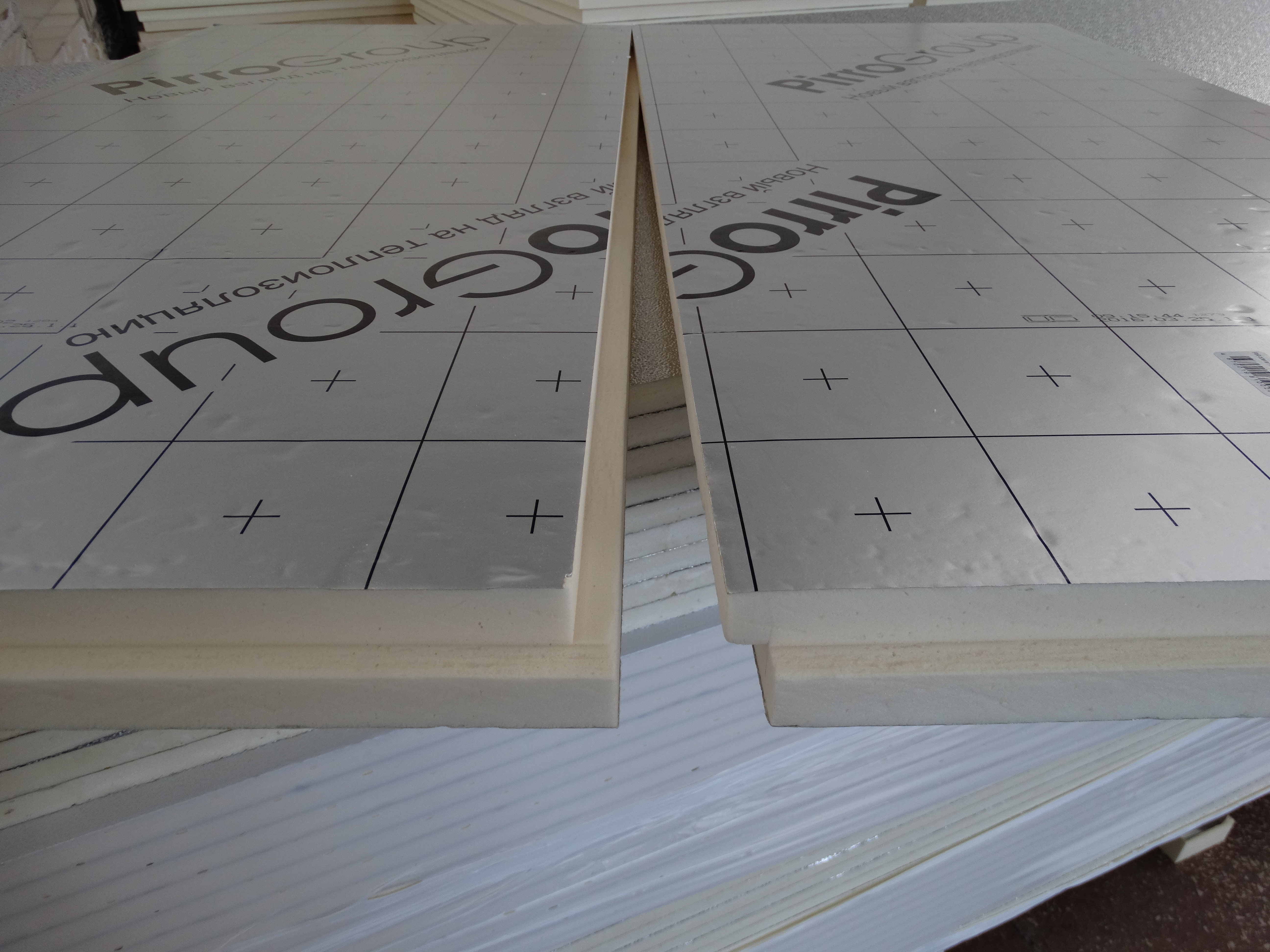 PIR insulation panels